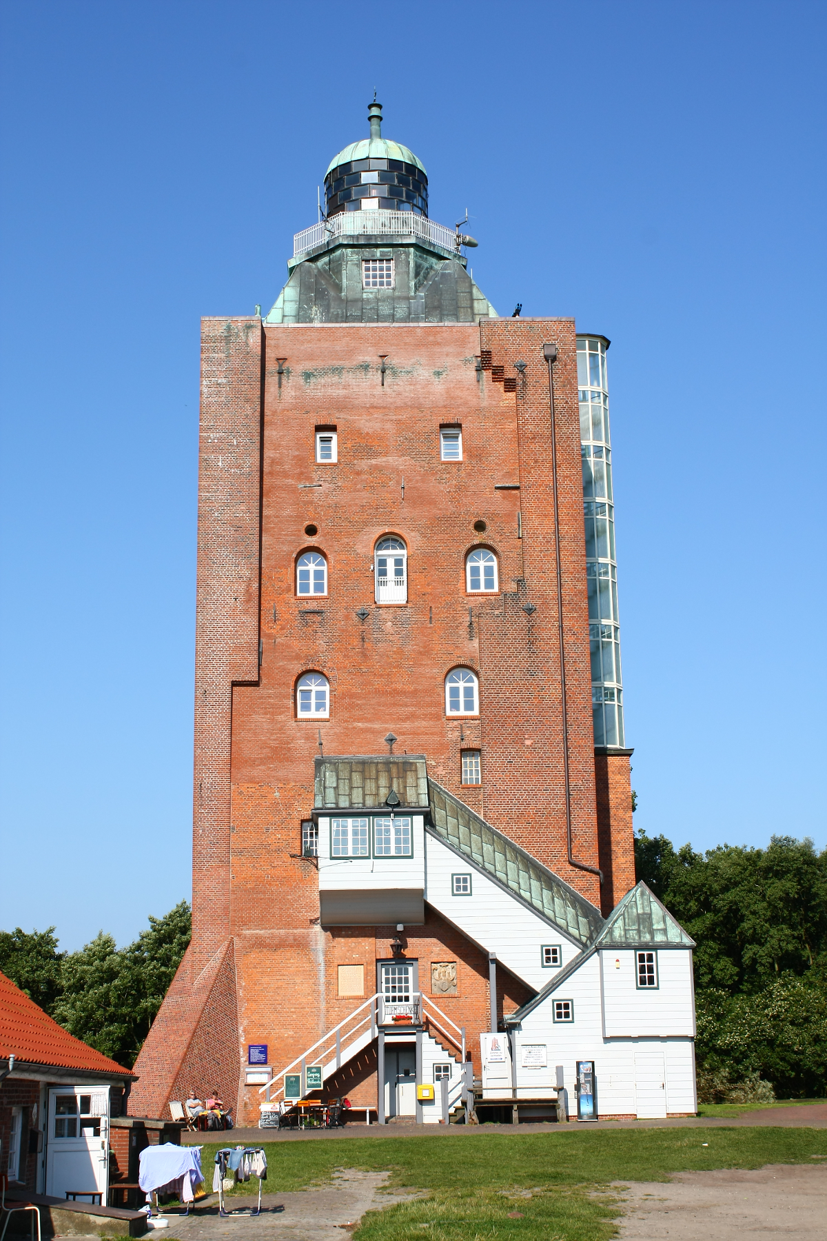 Lighthouse on Neuwerk Island